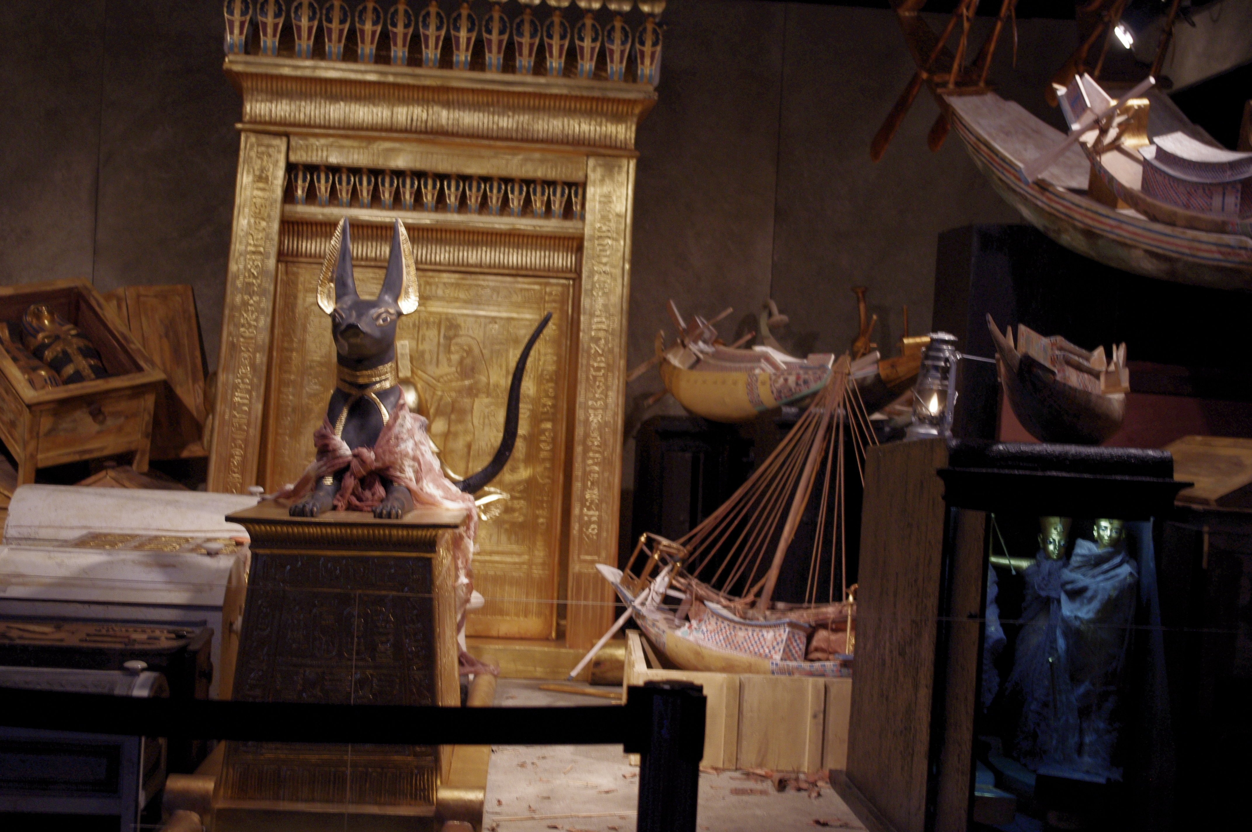 Treasure of Tutankhamun, exposition in Paris 2012. The tomb when it was first opened.